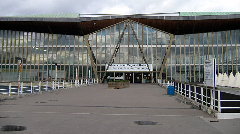 Crystal Palace National Sports Centre, taken by C Ford, March 04.